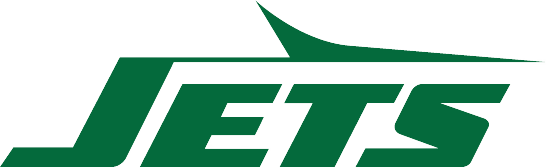 New York Jets primary logo 1978-1997